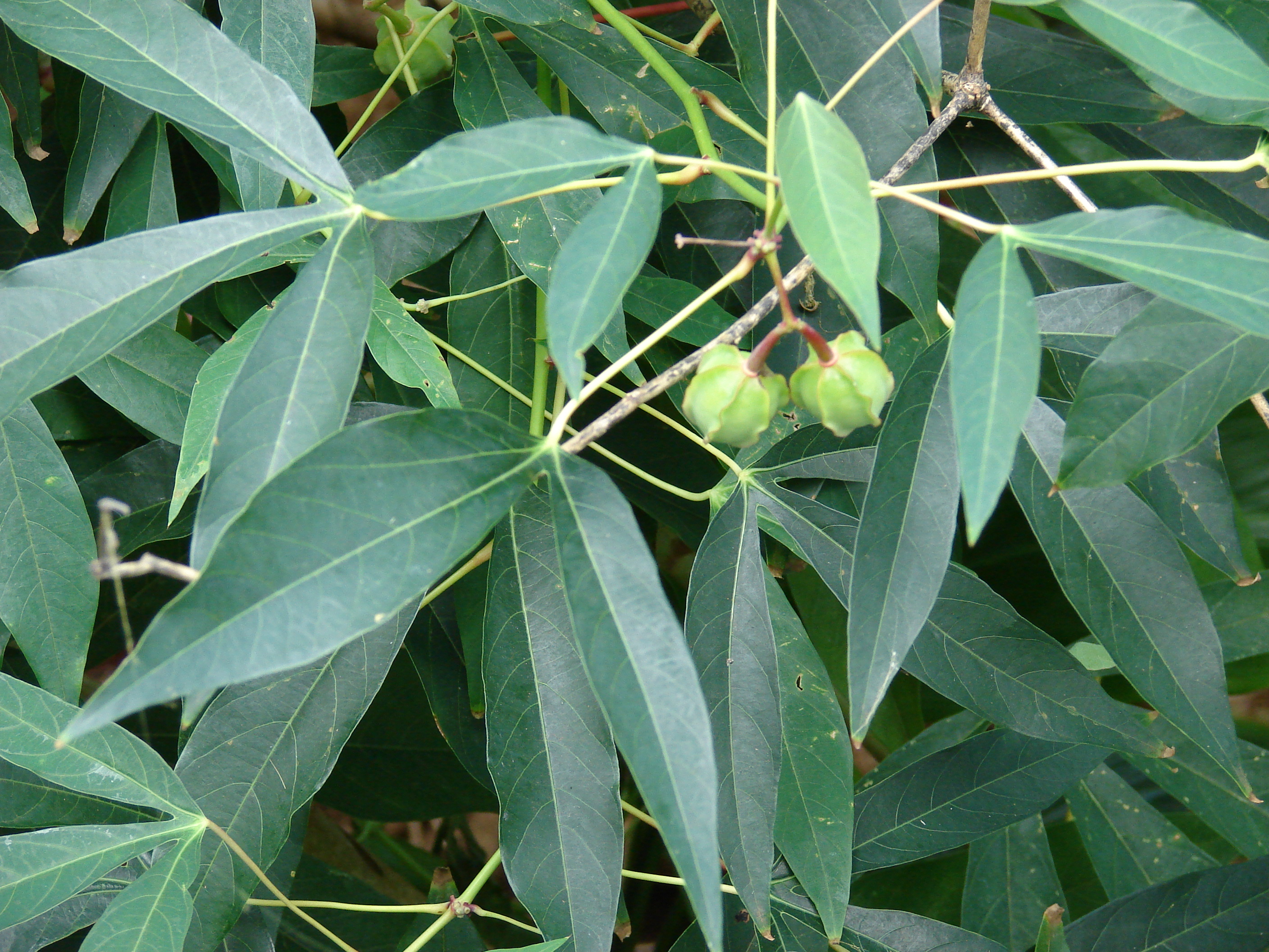 Manihot esculenta (leaves and fruit). Location: Maui, Maui Grown Market Haiku